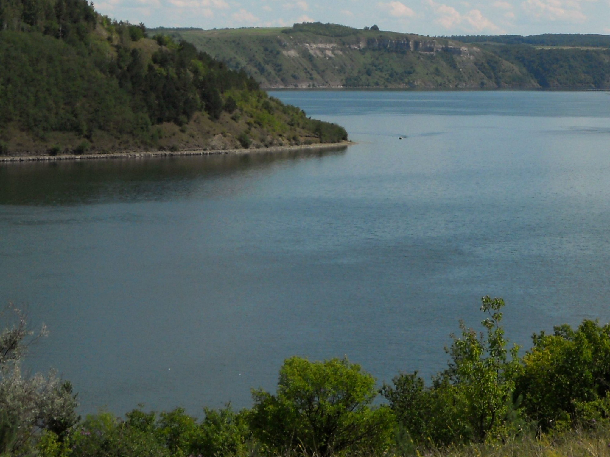 Dniester near the village